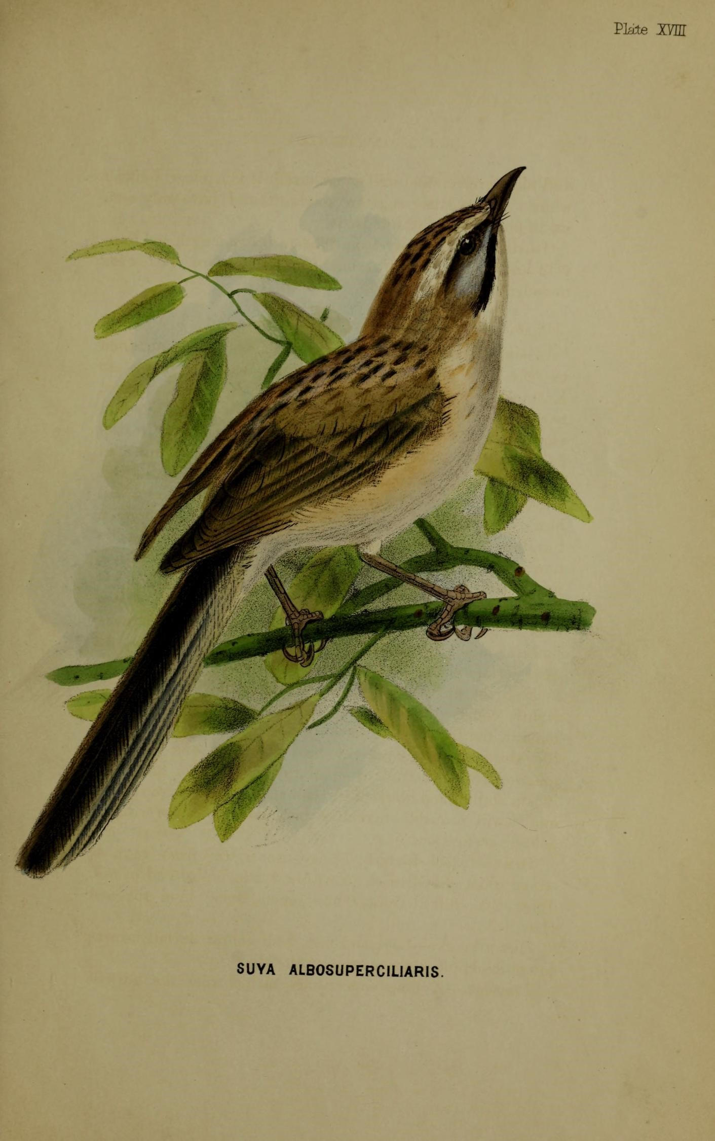 Plate fflir SUVA ALBOSUPERCILIARIS.